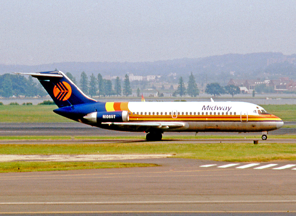 Douglas DC-9-15 N1065T of Midway Airlines at Washington DCA in 1982